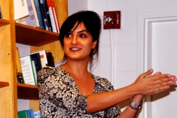 Elena Panaritis at a signing of her book, Prosperity Unbound